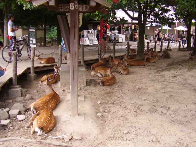 Deer in Nara, Japan, taking a rest after a hard day begging food from tourists.